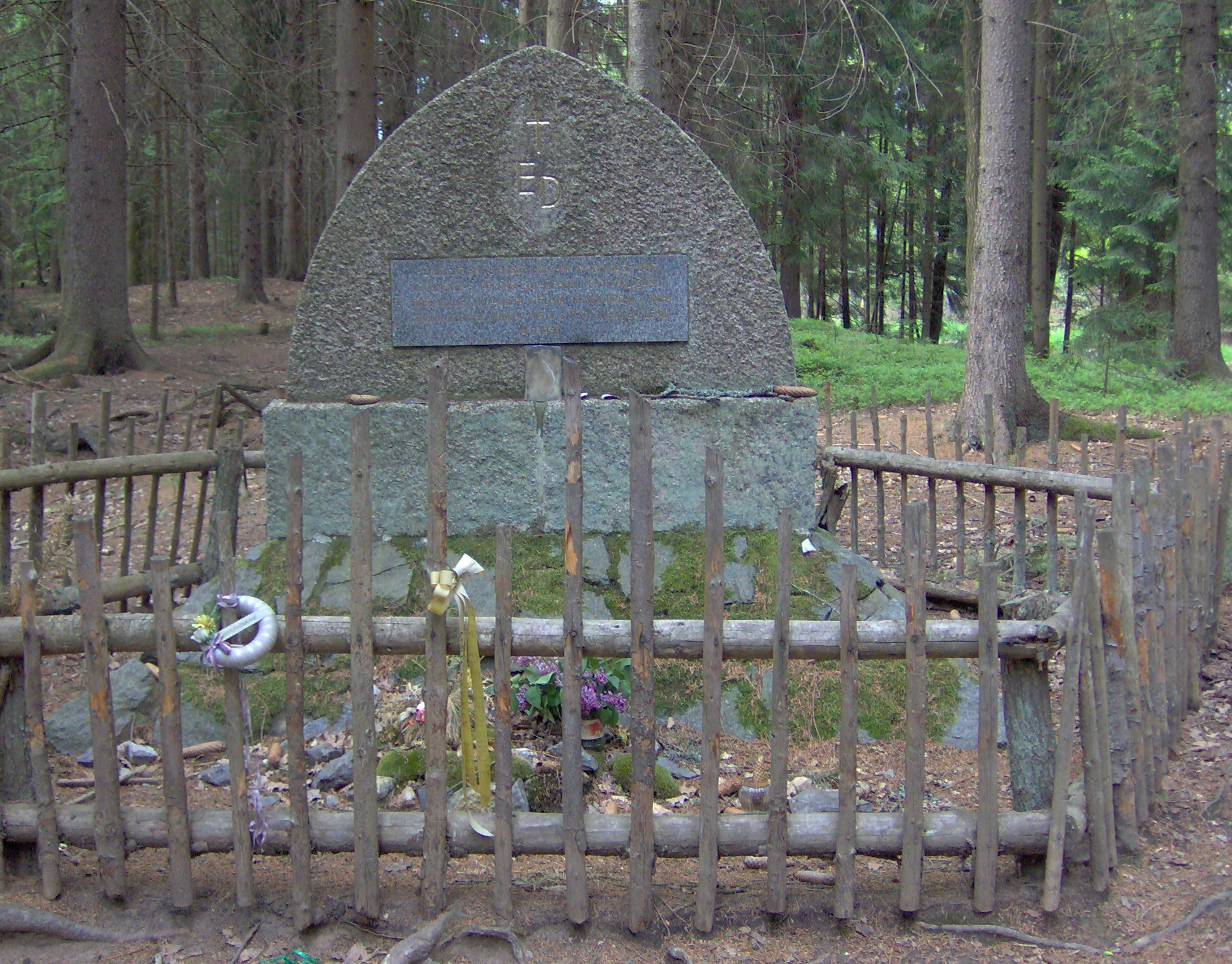 Memorial of Emmy Destinn near Stříbřec, South Bohemian Region, Czech republic